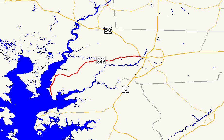 Map of Maryland Route 349